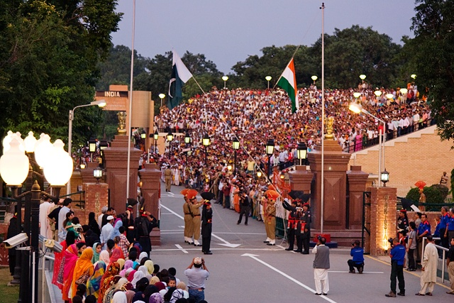 The evening flag lowering ceremony at the India-Pakistan International Border near Wagah. Taken from the Pakistani side.